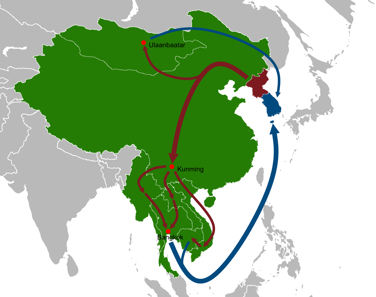 Map portraying common North Korean defector routes to South Korea. Data sources: Hanrahan, Mark (8 November 2014). North Korean Laborers In Qatar Working As 'State-Sponsored Slaves' During World-Cup Lead Construction Boom: Report. International Business Times. Retrieved on 7 October 2015. Kim Yong Hun (18 November 2009). Chongryon Feels the Pinch : The Plunging Chongryun – Part 1. . Retrieved on 7 October 2015. Kim Young-jin (15 October 2012). 4,000 N. Koreans working in Kuwait. koreatimes. Retrieved on 7 October 2015. Kovessy, Peter (30 August 2015). North Korean workers in Qatar fired for moonlighting - Doha News. Doha News. Retrieved on 7 October 2015. Kwon, K.J. (15 May 2015). North Korean migrant workers used as slaves. CNN. Retrieved on 7 October 2015. Pattisson, Pete (7 November 2014). North Korean 'forced labour' helps to build Qatar’s ambitious future. the Guardian. Retrieved on 7 October 2015. Rosen, Armin (26 July 2012). The Strange Rise and Fall of North Korea's Business Empire in Japan. The Atlantic. Retrieved on 7 October 2015. Sang-Hun, Choe (19 February 2015). North Korea Exports Forced Laborers for Profit, Rights Groups Say. . Retrieved on 7 October 2015. Song Jiyoung (28 June 2013). The Complexity of North Korean Migration. . Retrieved on 7 October 2015. The Chosun Ilbo (English Edition): Daily News from Korea - N.Korean Workers Brave Hard Times in UAE. (25 December 2009). Retrieved on 7 October 2015. Who We Help. (n.d.). Retrieved on 7 October 2015. This file was derived from: BlankAsia.png